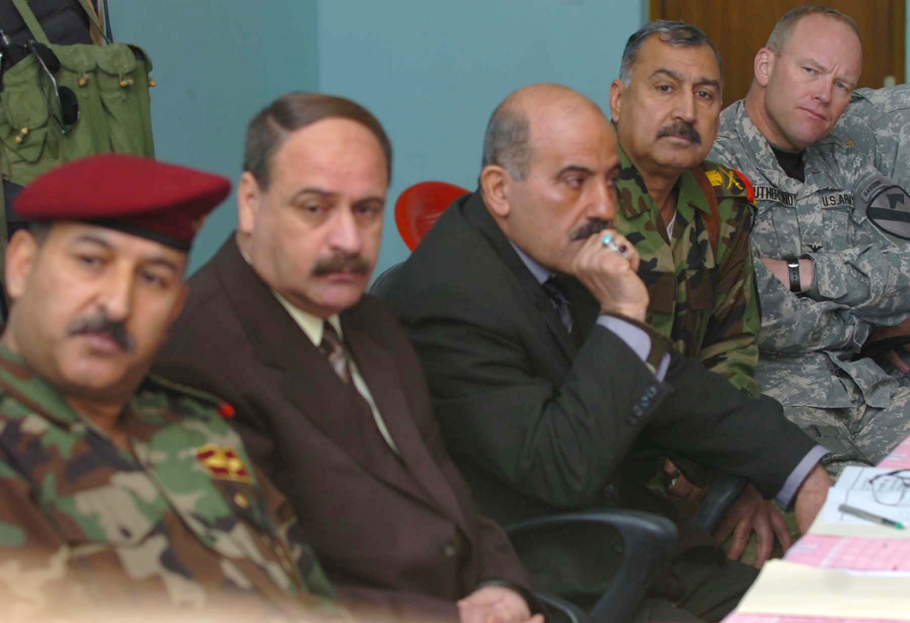 From left to right, the 5th Iraqi Army Division commander, the Balad Ruz mayor, the governor of Diyala, the Provincial Director of Police and the 3rd Brigade Combat Team, 1st Cavalry Division commander, listen to and address the concerns of approximately 150 local leaders and citizens at the Balad Ruz town hall meeting, Feb. 1.